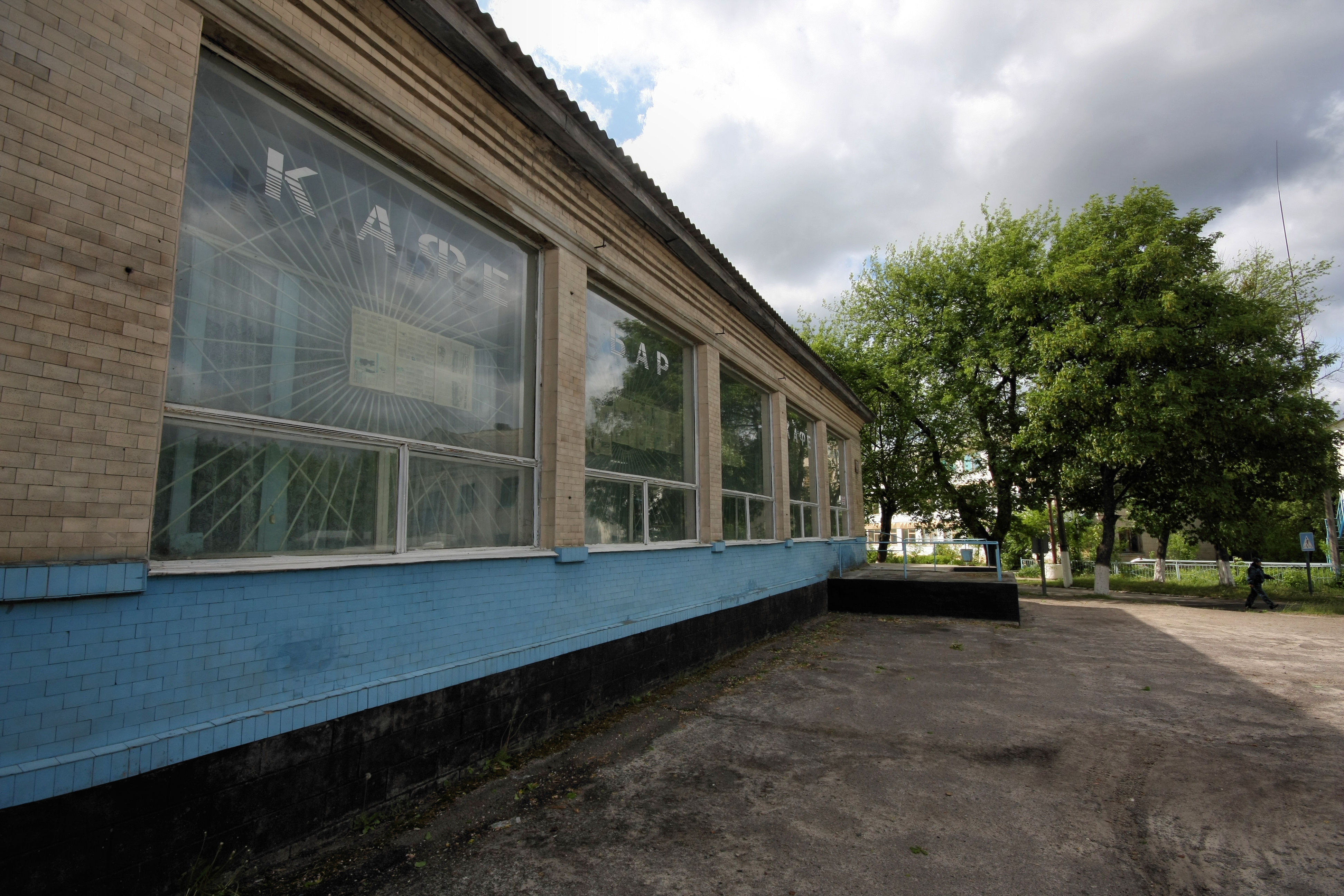 The grocery store in Chernobyl, Ukraine. The text in the window misleadingly says "Café - Bar"